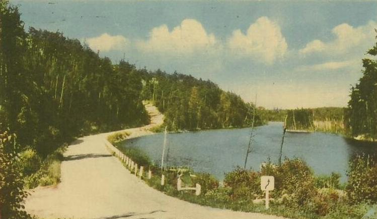 Postcard photo of the Ferguson Highway (now known as Highway 11) in Temagami, Ontario. This portion of the highway is now Wilson Lake Road. Lake in picture is Jumping Caribou Lake.